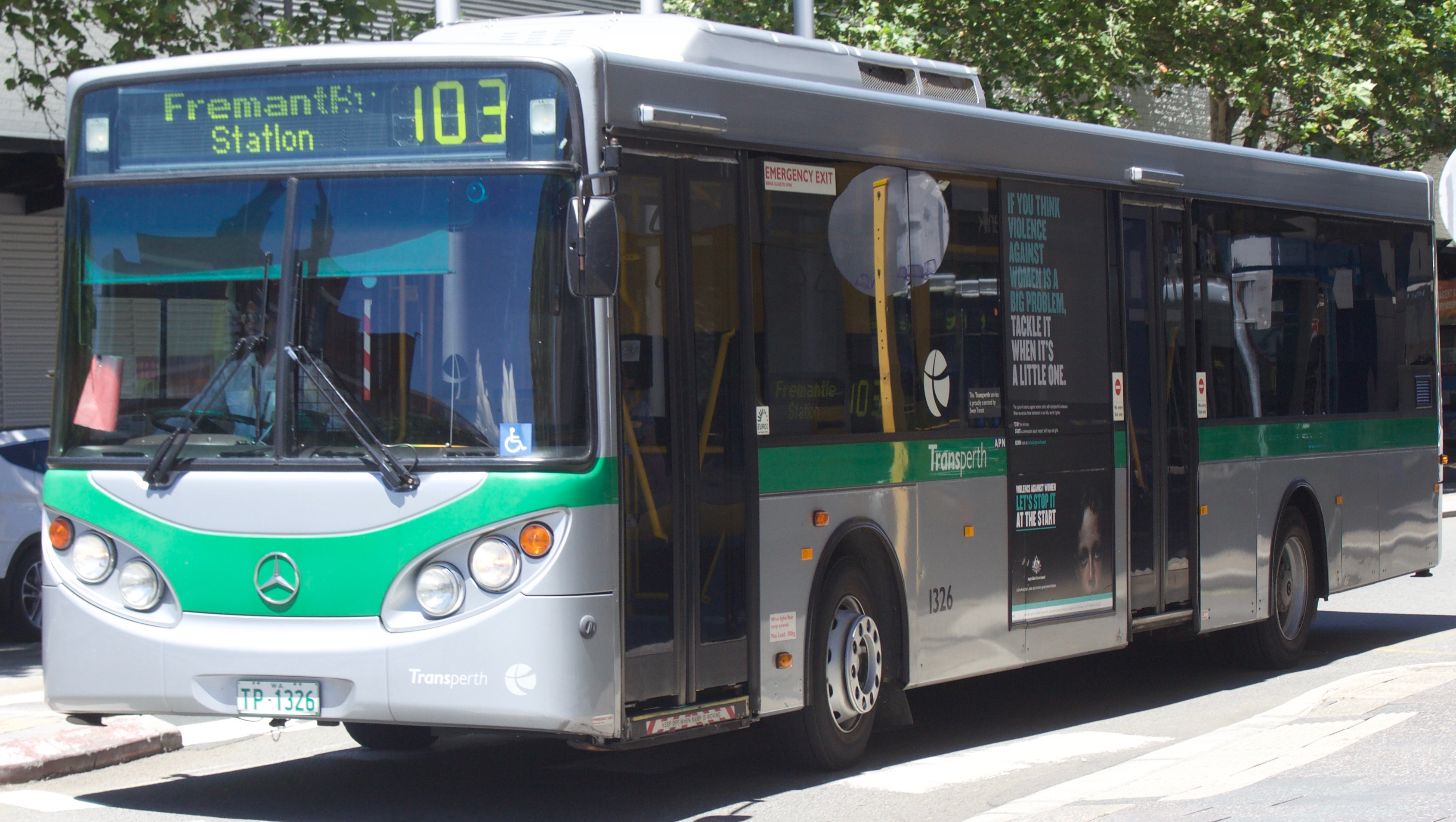 Volgren CR225L bodied Mercedes-Benz O405NH, Swan Transit (TP 1326; built: 2000) on Route 103